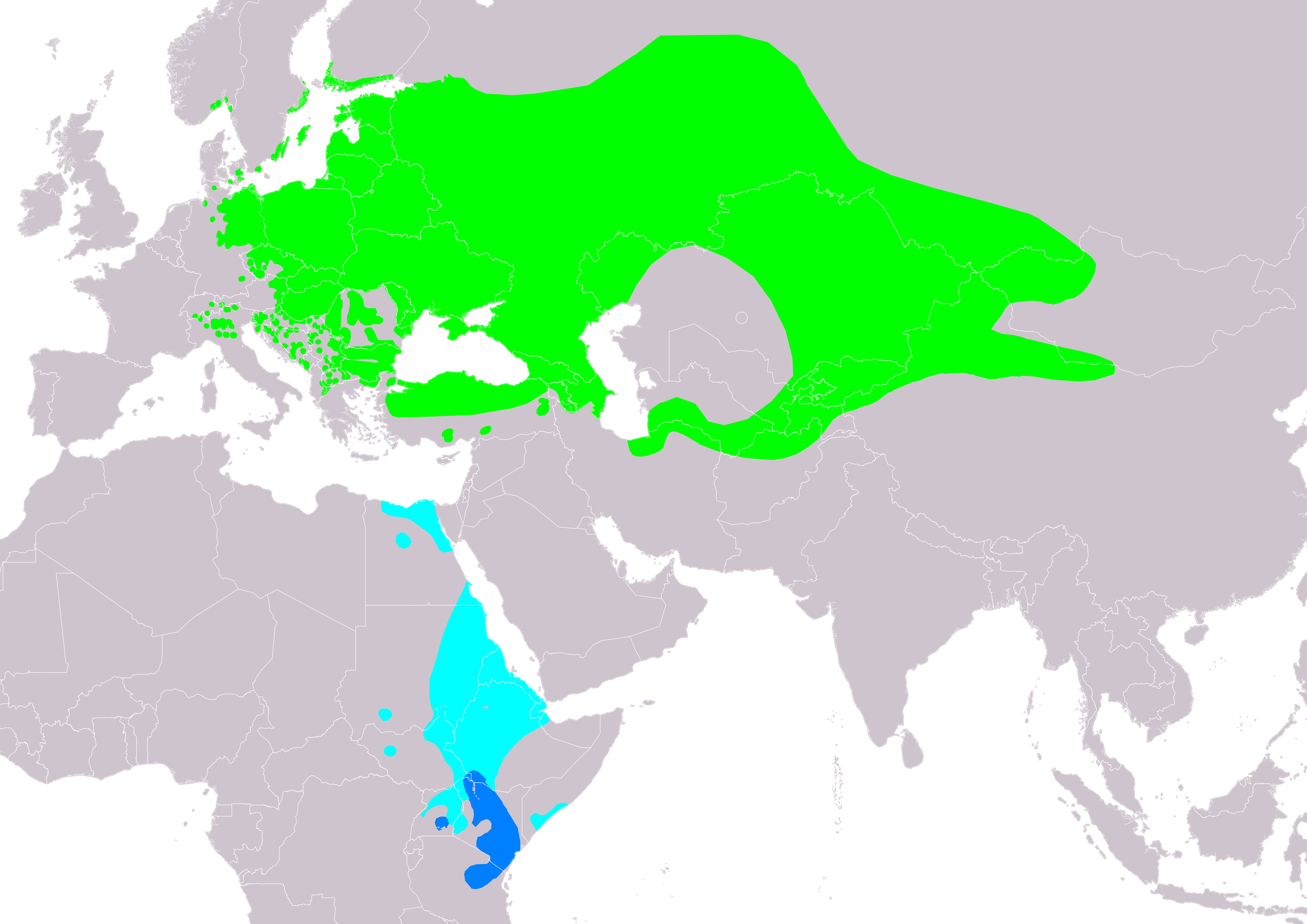 Distribution map of Barred Warbler (Sylvia nisoria) according to IUCN version 2019.3 (compiled by: BirdLife International and Handbook of the Birds of the World (2016) 2007.); key: Legend: Extant, breeding (#00FF00), Extant, passage (#00FFFF), Extant, non-breeding (#007FFF)